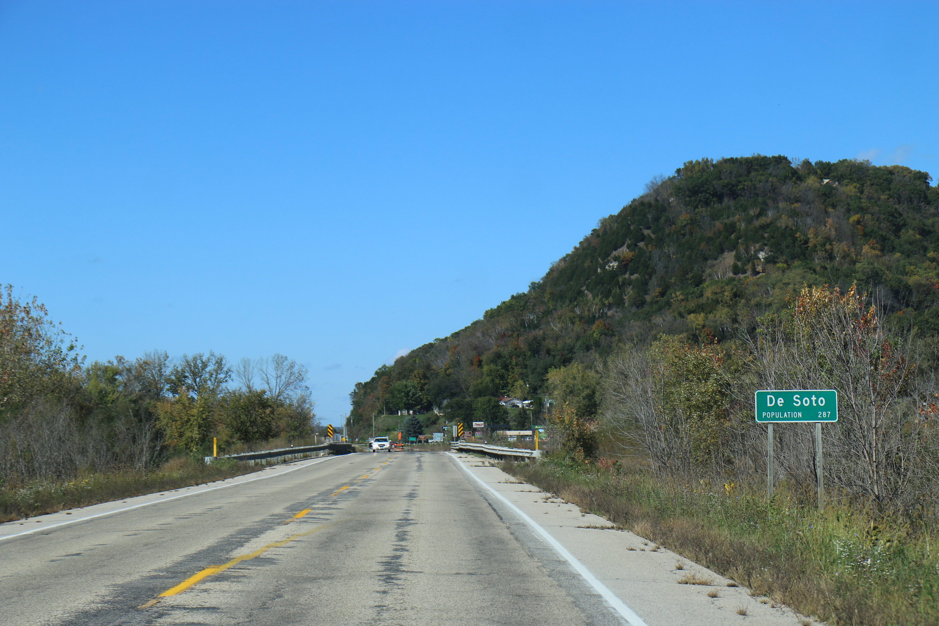 The sign for DeSoto, Wisconsin on WIS35.